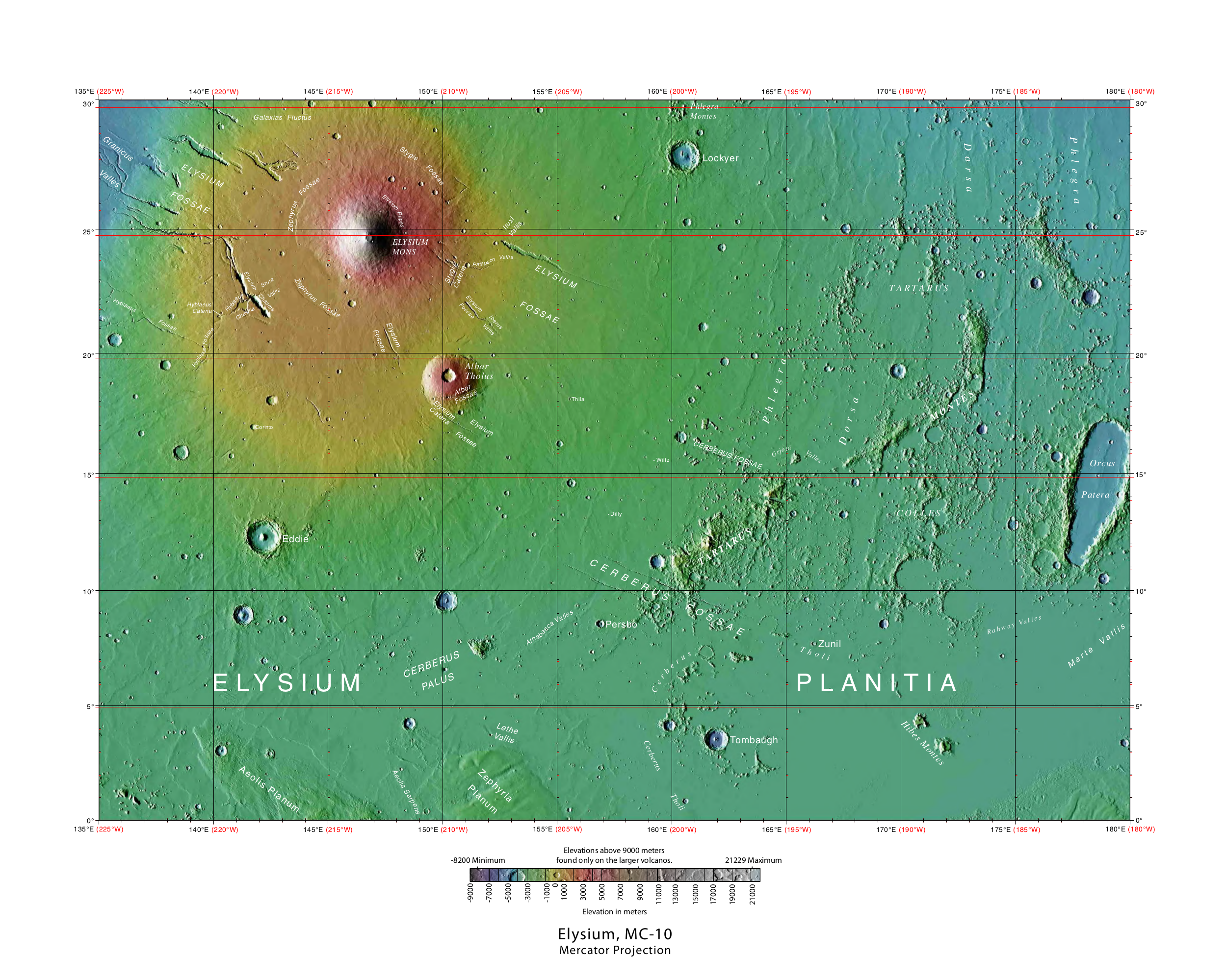 MOLA Topographic Map of Elysium Quadrangle (MC-15) on the planet Mars. NOTE: Converted the original PDF file to a PNG File (via GIMP v2.8.4 program) - and uploaded to Wikimedia Commons.